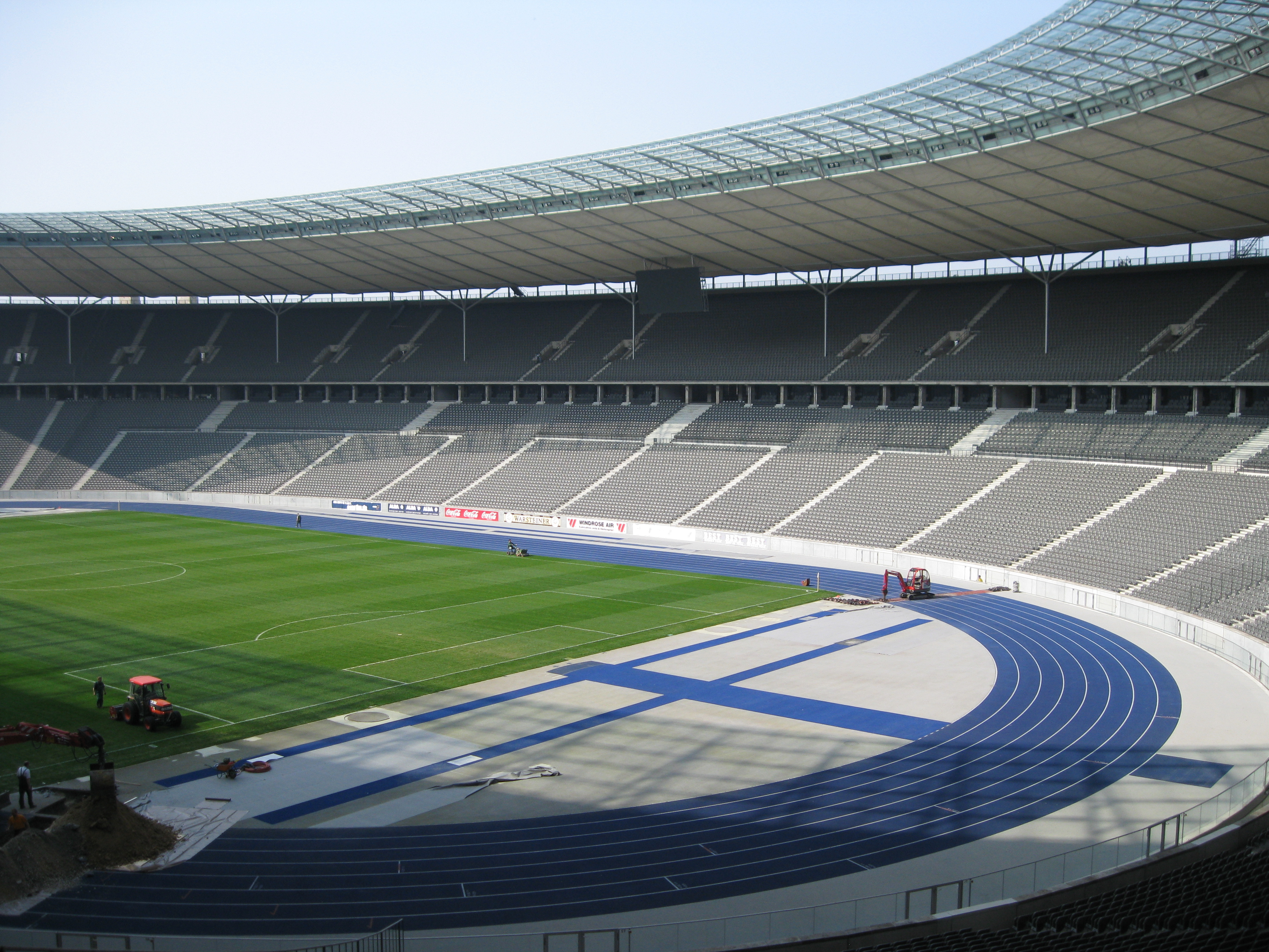 Olympic stadium, Berlin